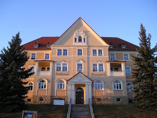 former town hall of Wurgwitz (now part of Freital, 9 km from Dresden)